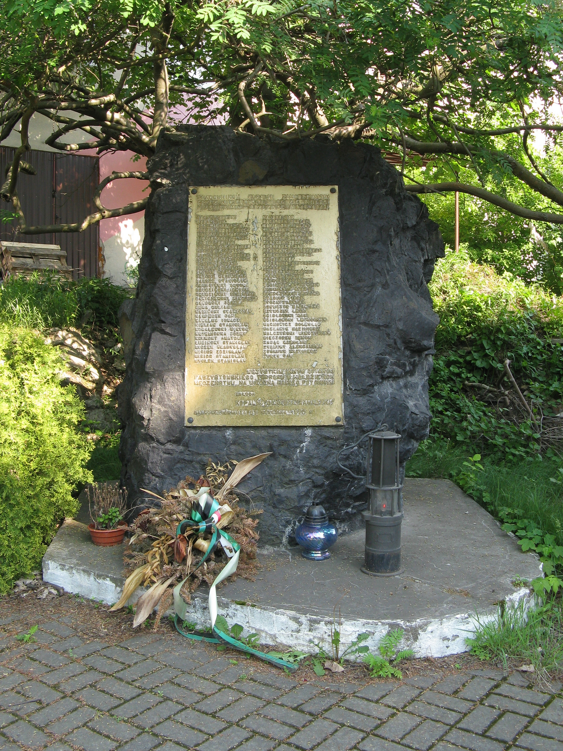 Monument to the memory of the murdered mine workers in the Auschwitz-Birkenau death camp in the years 1942-1943 near the former coal mine Paris, ul. Felix Perla, Dąbrowa Górnicza, Poland.